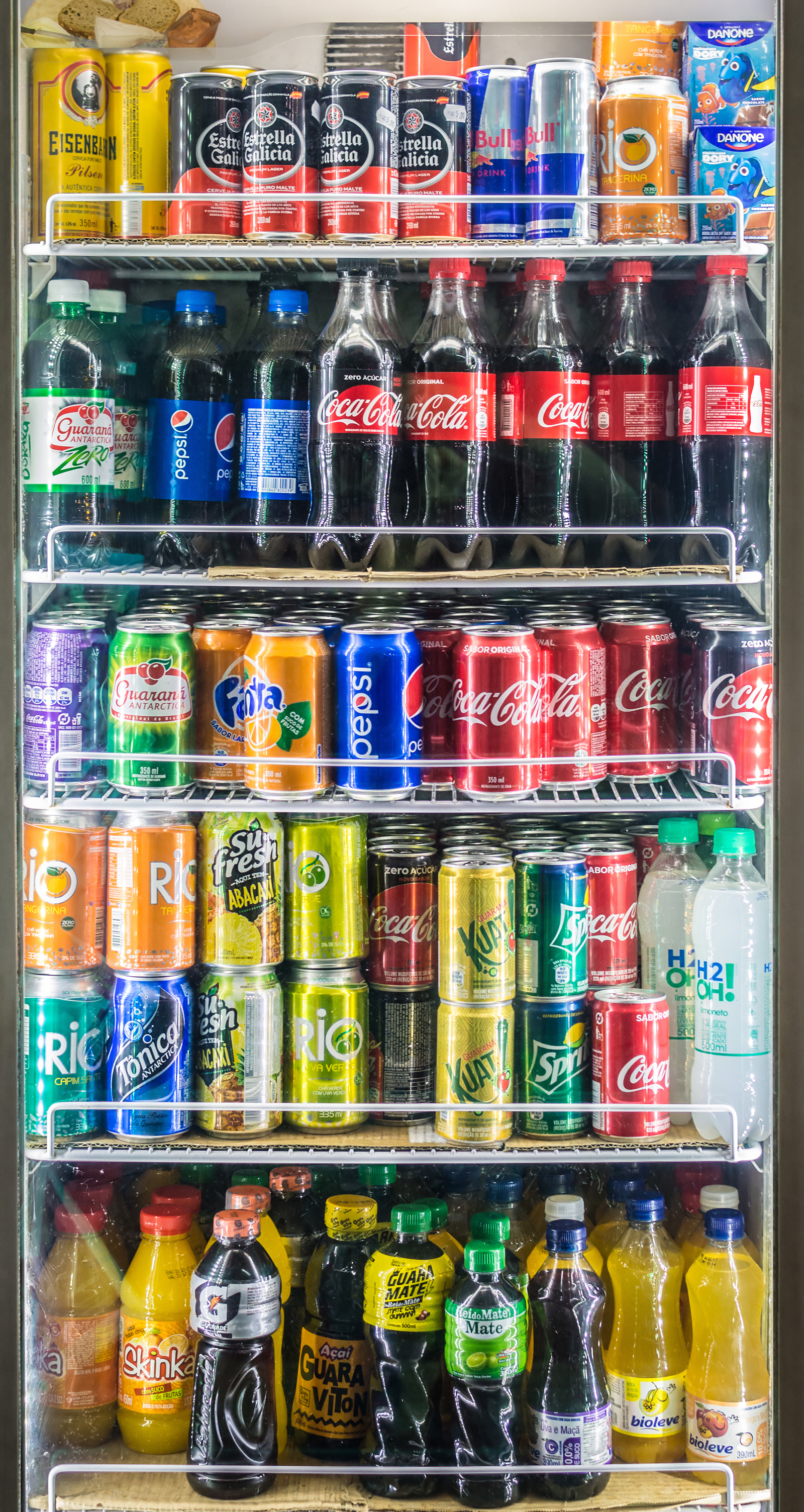 Soft drink shelf